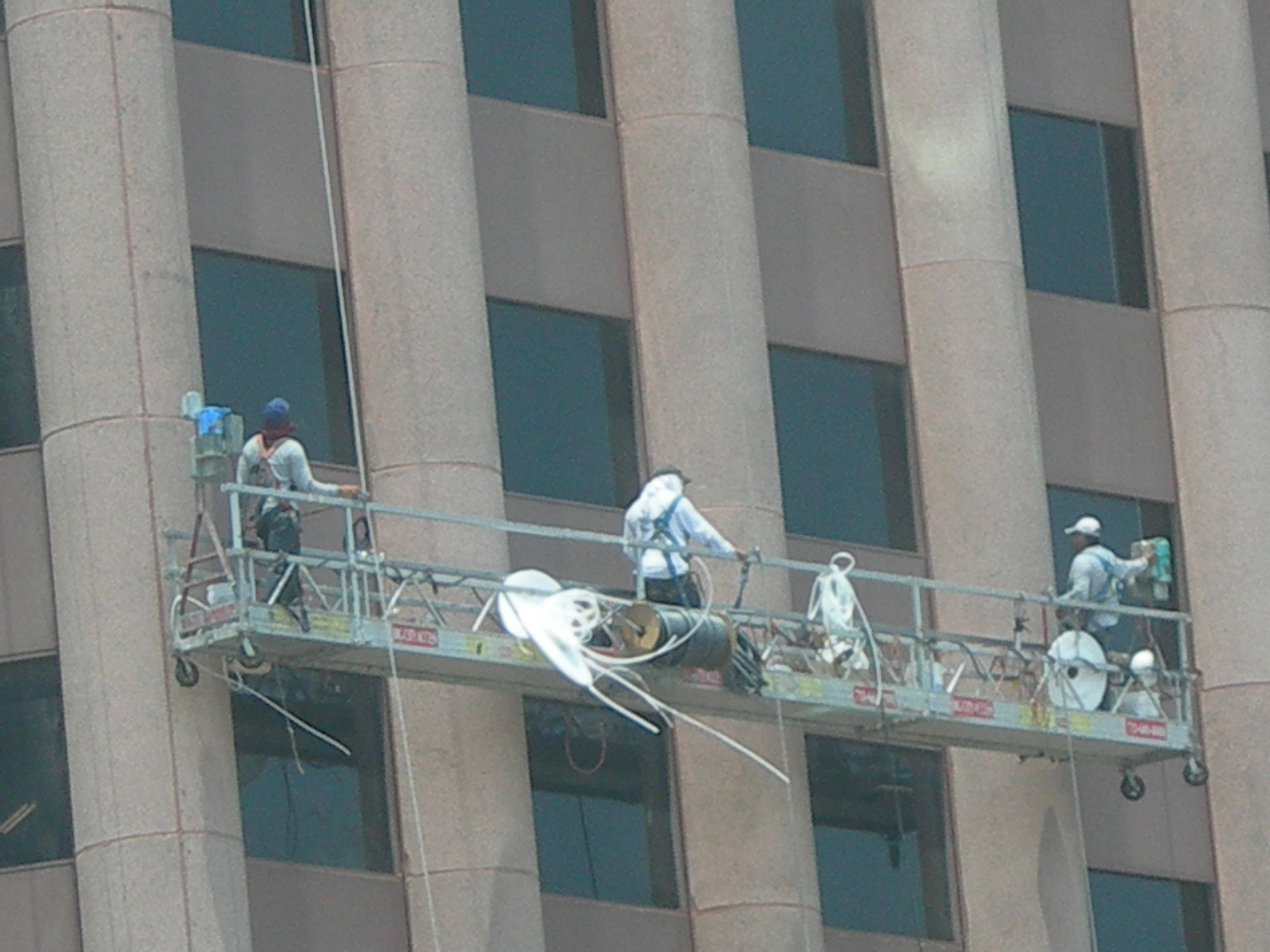 Window Cleaners on Wedge International Tower in Houston